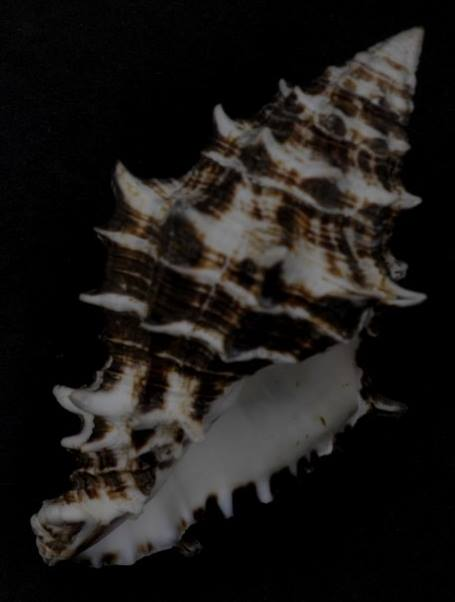 Seashell of Vasum ceramicum (Linnaeus, 1758)[1] (underside view). Specimen from the Moluccas and deposited in the collection of the Naturalis Biodiversity Center.